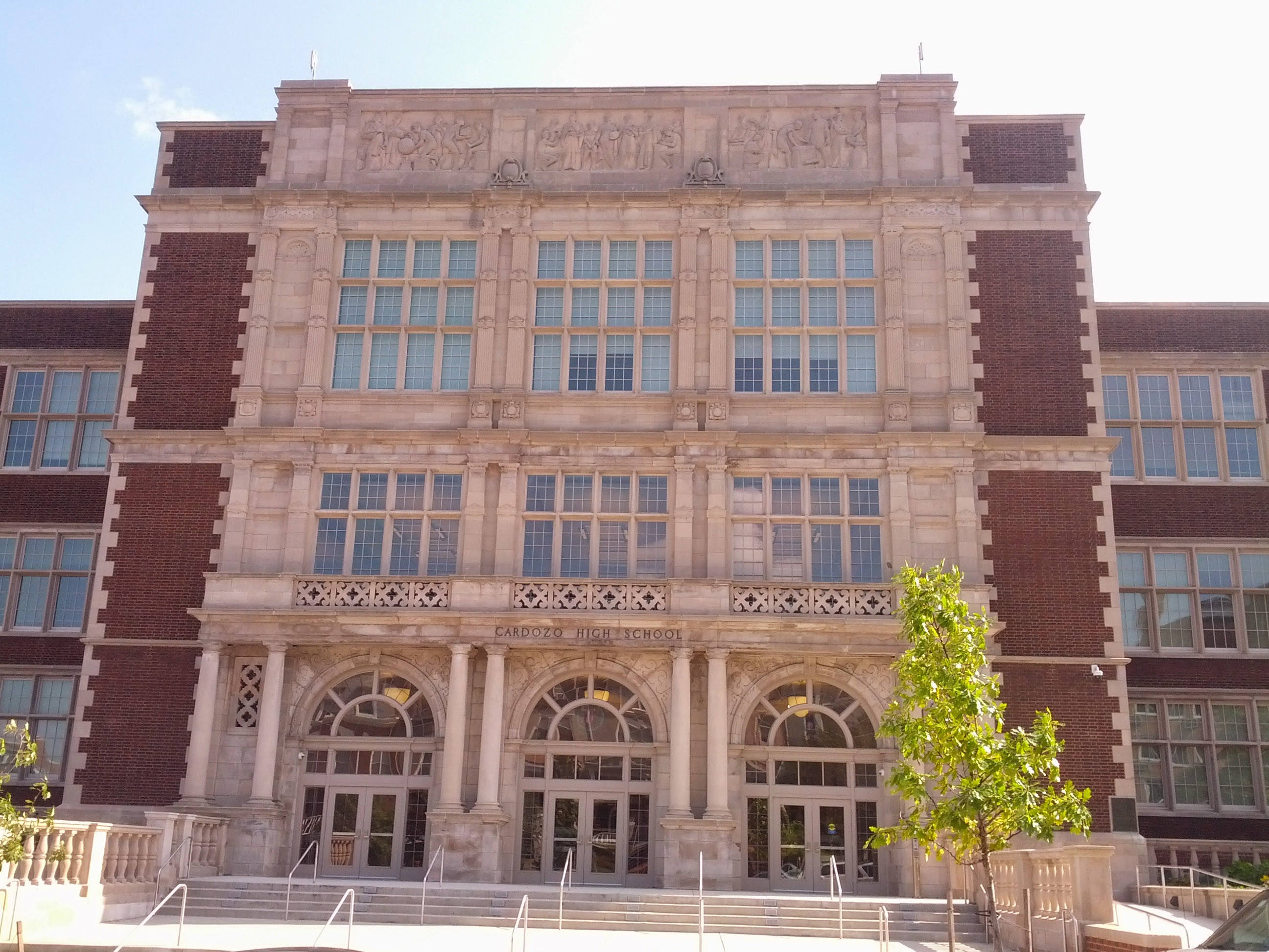 The exterior of Cardozo, Washington DC after the completion of a $128 million renovation.